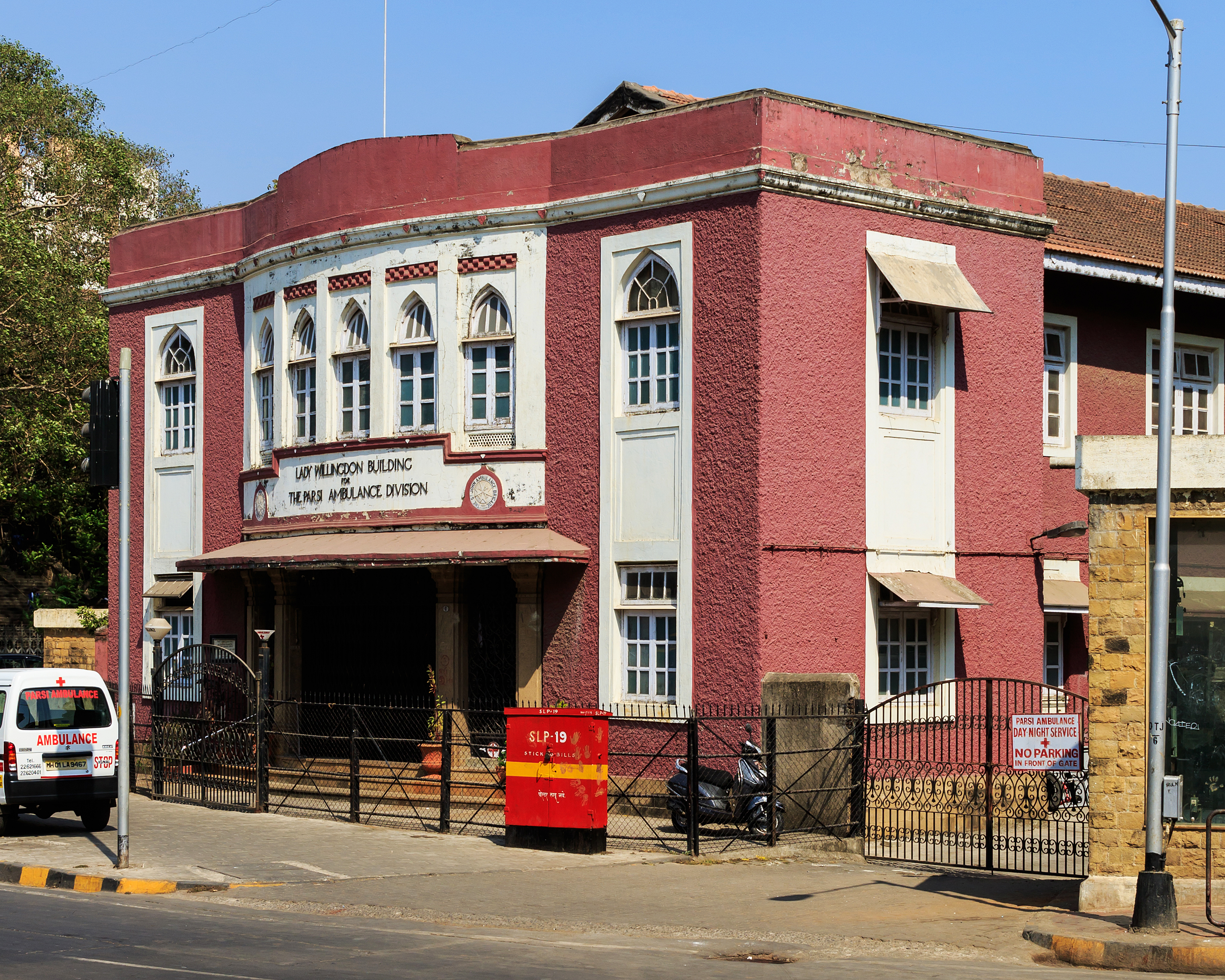 Hospital at Dhobi Talao Chowk in Mumbai, India